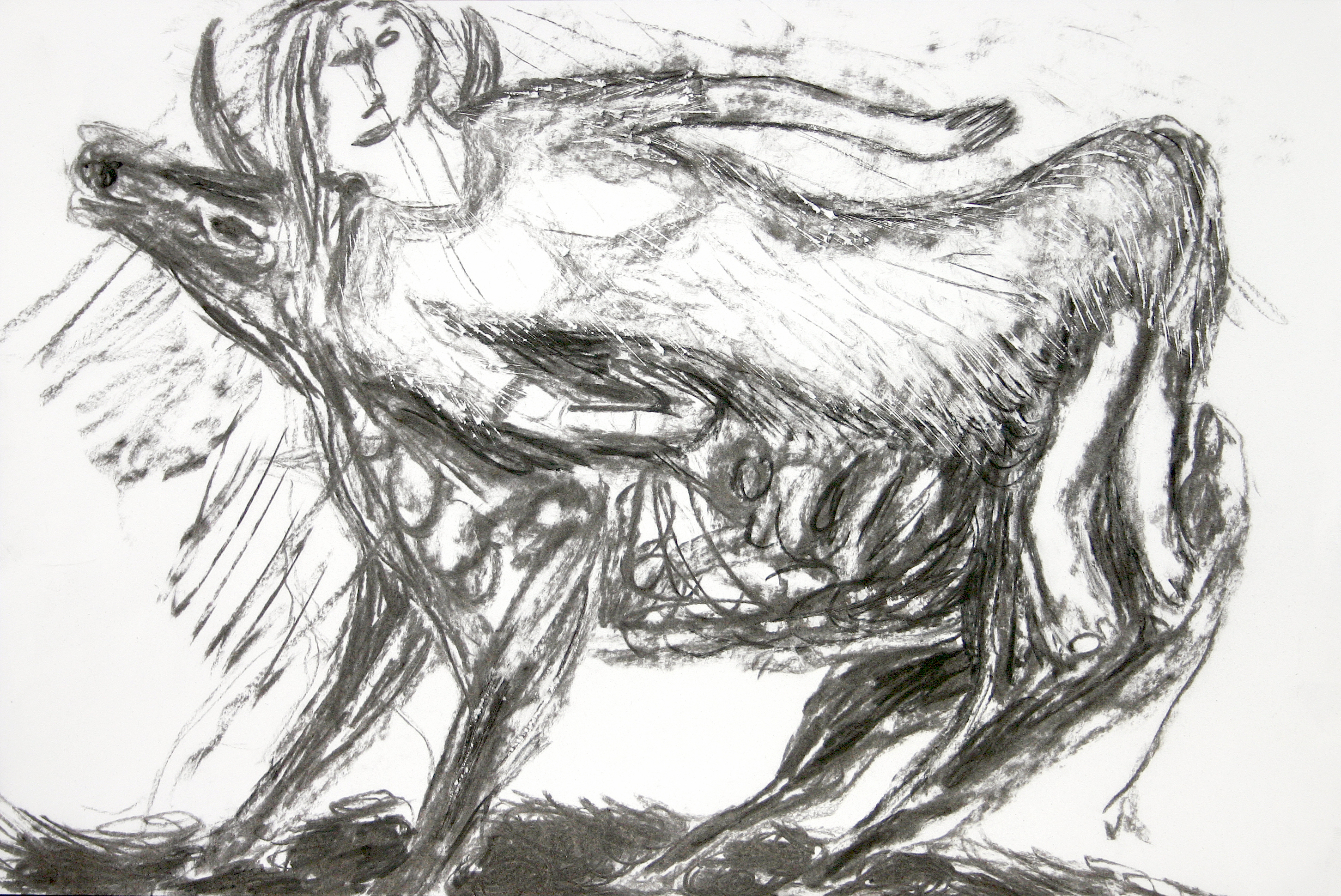 Abduction of Europa (drawing by Frank'a Waaldijk)